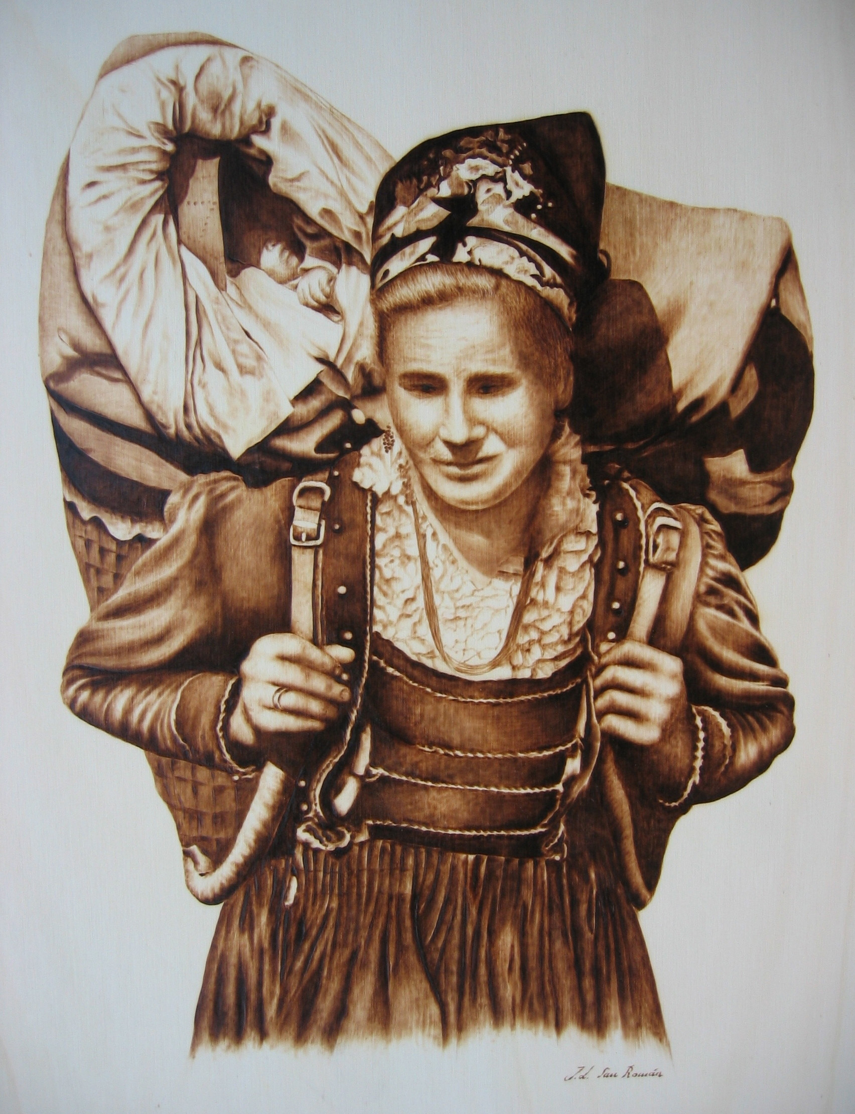 Pasiega carrying a cradle basket. Pyrography on wood panel.